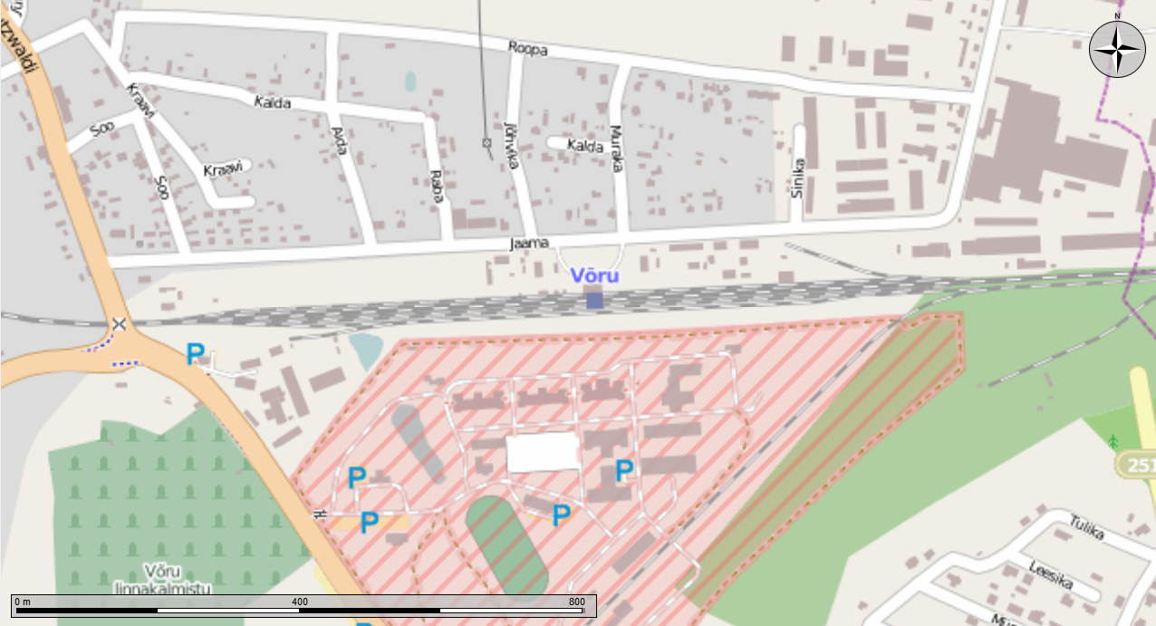 OpenStreetMap showing the Voru train station in Voru, Estonia. OSM overlay in the Marble program.